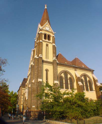 Budapest VII: Fasor lutheran church, arch. Samu Pecz, year 1905.